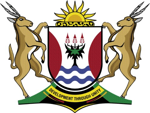 EC province coat of arms